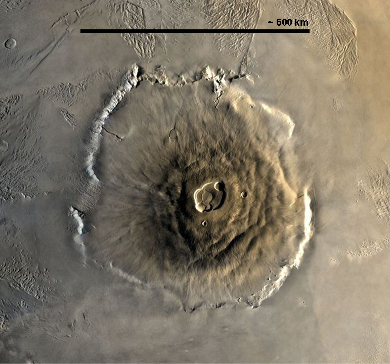 Olympus Mons, Mars. With black scale in km.